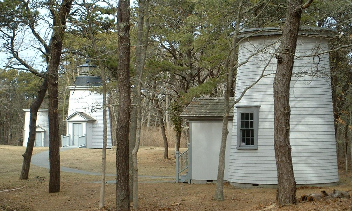 The Three Sisters Lights, North Eastham, Massachusetts. Formerly located north of the Nauset Light, the lights were saved from the eroding shore and retired, due to their obsolescence by the Nauset Light. The field they are located in is 1,000 feet west of the Nauset Light.